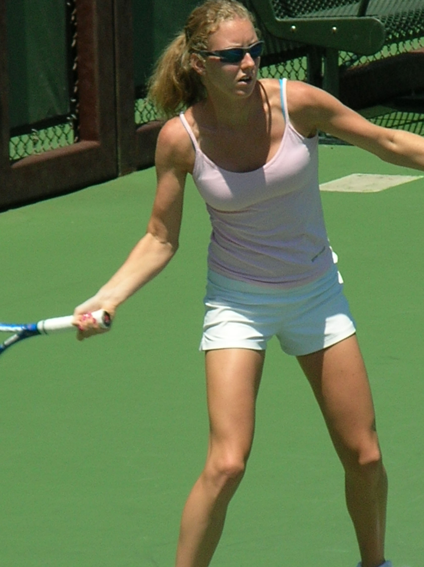 Urszula Radwańska practicing at the Bank of the West Classic at Stanford. Note: Urszula did not play in the Bank of the West Classic, but her sister Agnieszka did.